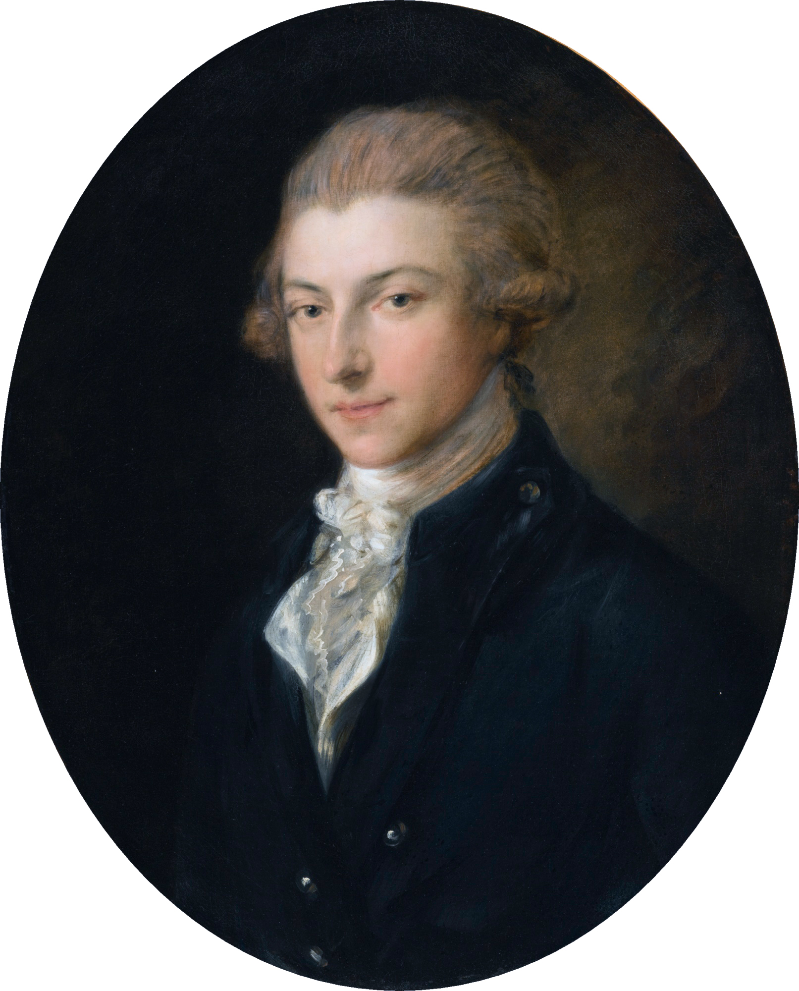 Louis-René Ferdinand Quentin de Richebourg, Chevalier de Champcenetz oil on canvas 68 x 55 cm